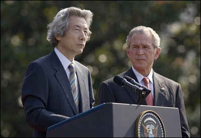 Prime Minister Junichiro Koizumi of Japan speaks during the arrival ceremony on the South Lawn Thursday, June 29, 2006. "I sincerely hope that my visit this time will enable our two countries to continue to cooperate and double-up together, and as allies in the international community make even greater contributions to the numerous challenges in the world community," said the Prime Minister.